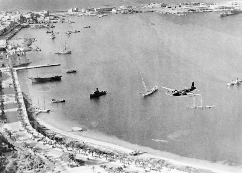 An RAF Vickers Wellington DWI (Directional Wireless Installation) mine-clearing aircraft flies over the harbour at Tripoli, 23 January 1943. (Original IWM caption: A Vickers Wellington DWI (Directional Wireless Installation) aircraft of No. 1 General Reconnaissance Unit, flying south-west over the harbour at Tripoli, during a mine-clearance operation soon after the occupation of the town by the Allies on 23 January 1943. The DWI version of the Wellington was fitted with a 48-foot diameter electromagnetic ring for exploding magnetic mines sown by the Axis forces.)